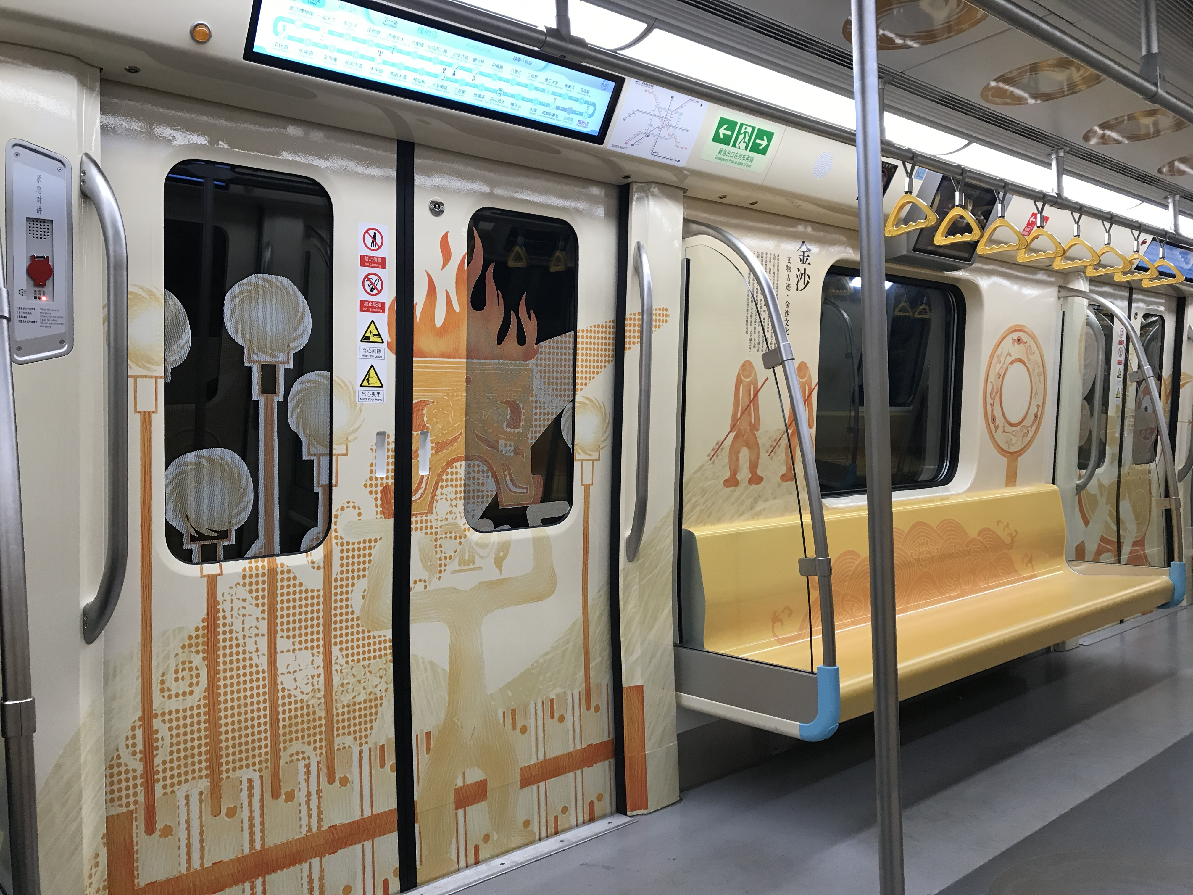 Inside of line 7 theme train, Chengdu Metro